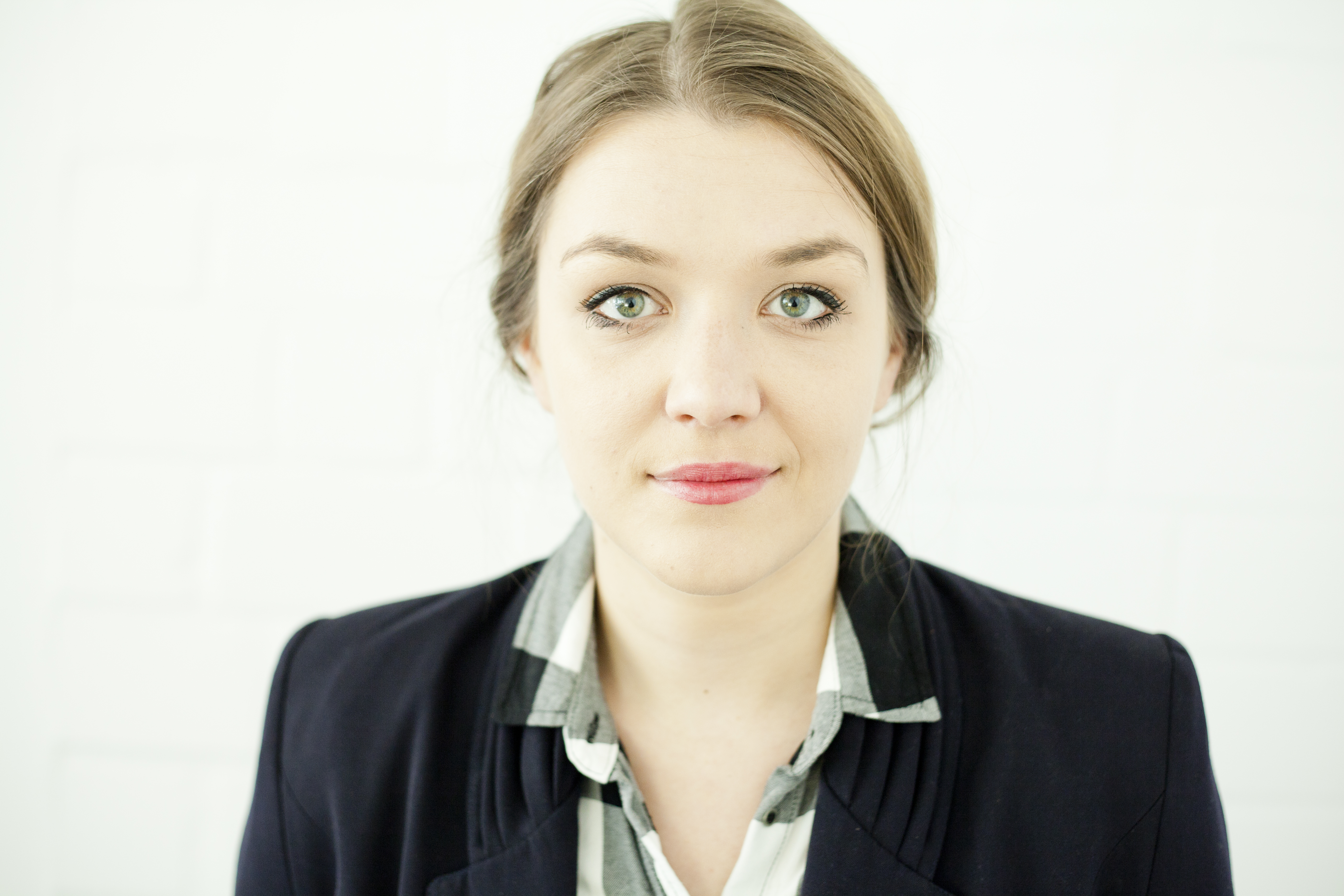 portrait 2016